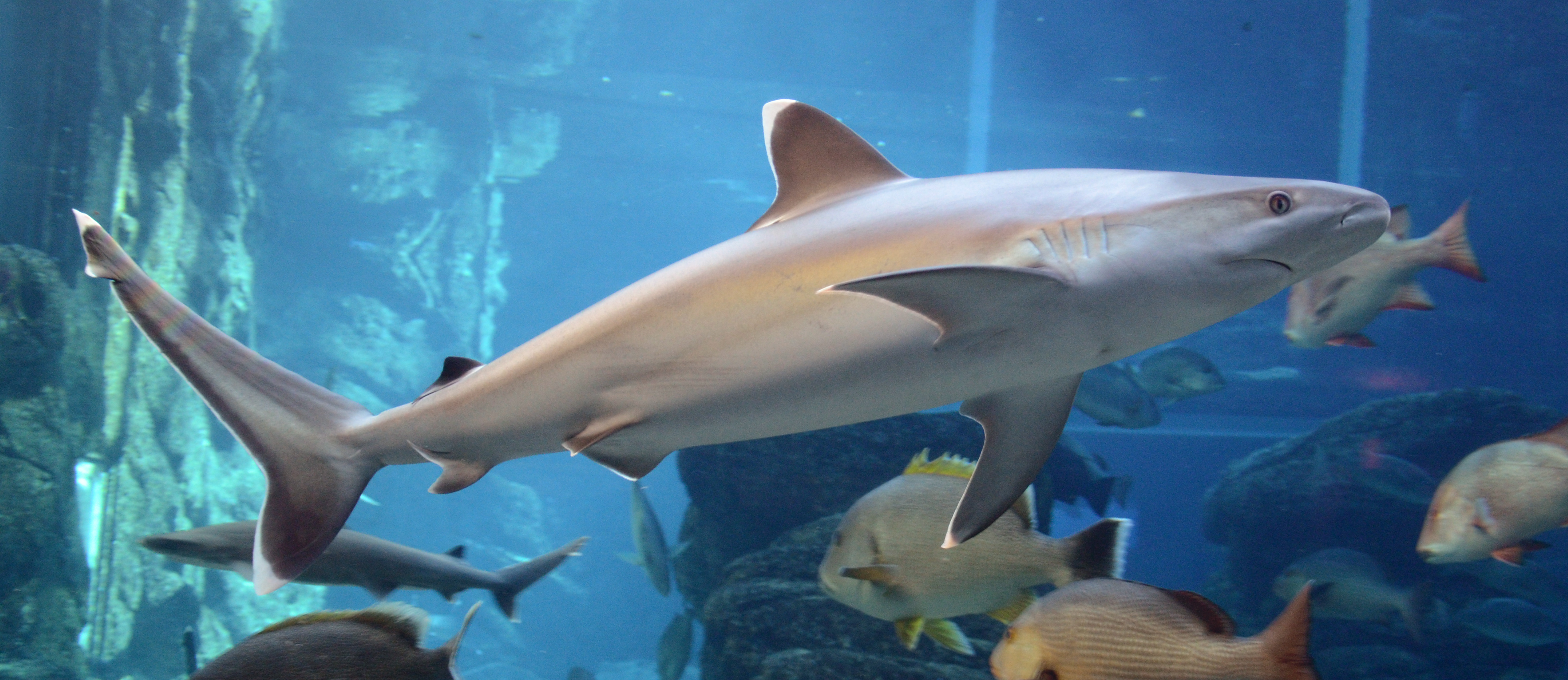 A silvertip shark (Carcharhinus albimarginatus) in UShaka Sea World